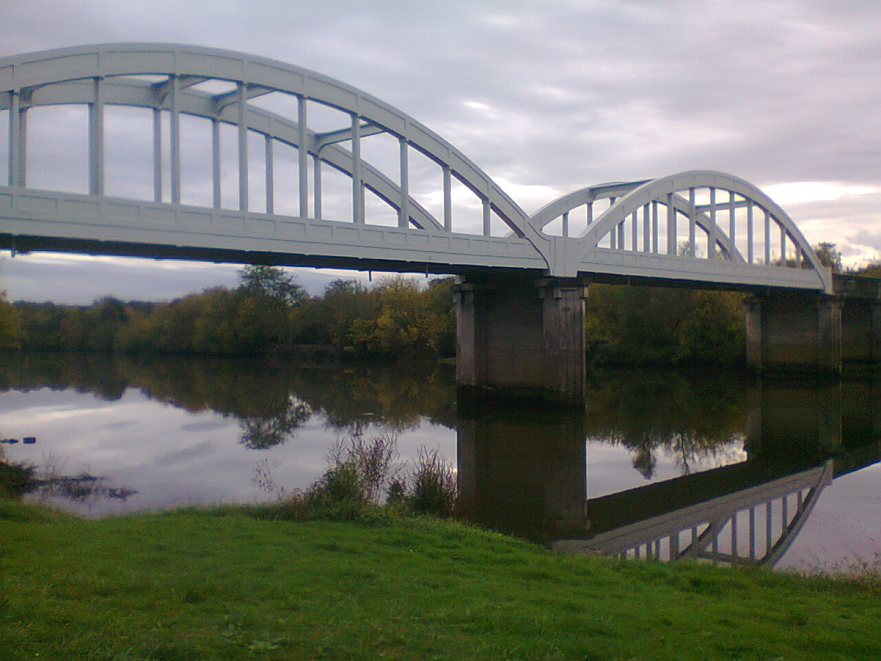 The bridge of la Marquèze on the Adour river, near the village of Josse (Landes, France).